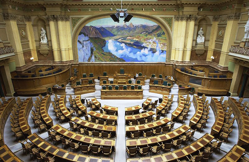 Chamber of the Swiss National Council